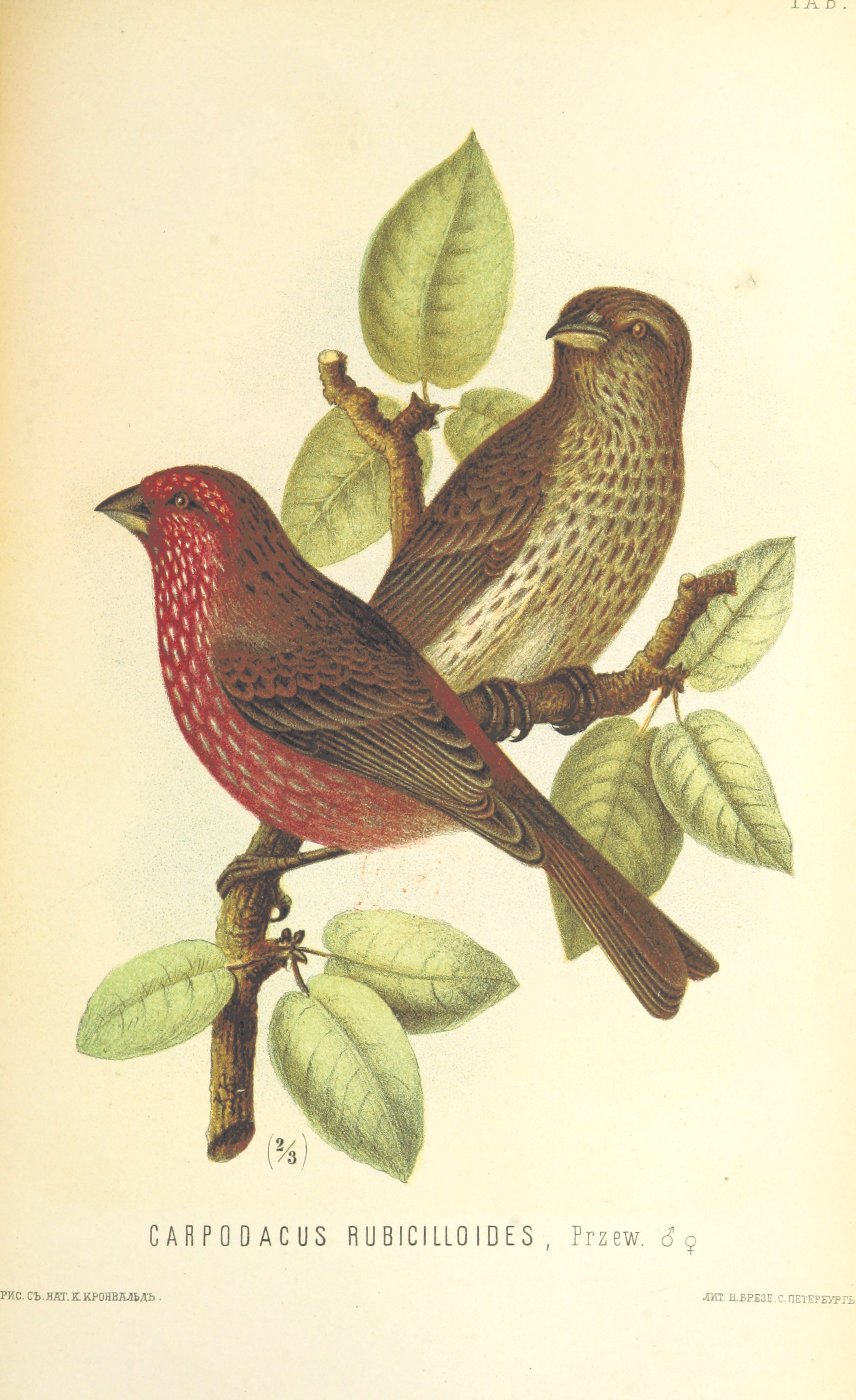 The Streaked rosefinch, Carpodacus rubicilloides.